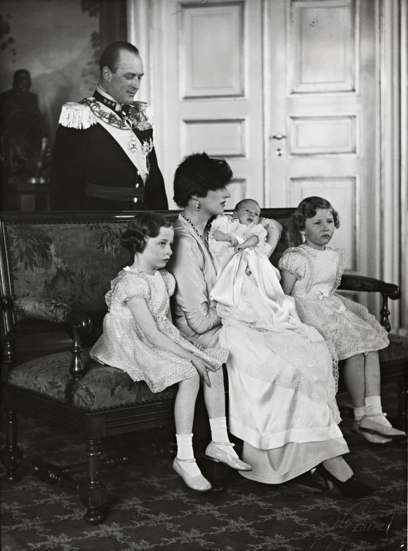 Tittel / Title: Kronprinsfamilien ved Prins Haralds dåp Dato / Date: 31. mars 1937 Fotograf / Photographer: Anders Beer Wilse (1865-1949) Eier / Owner Institution: Nasjonalbiblioteket / National Library of Norway Lenke / Link: Bildesignatur / Image Number: blds_04774